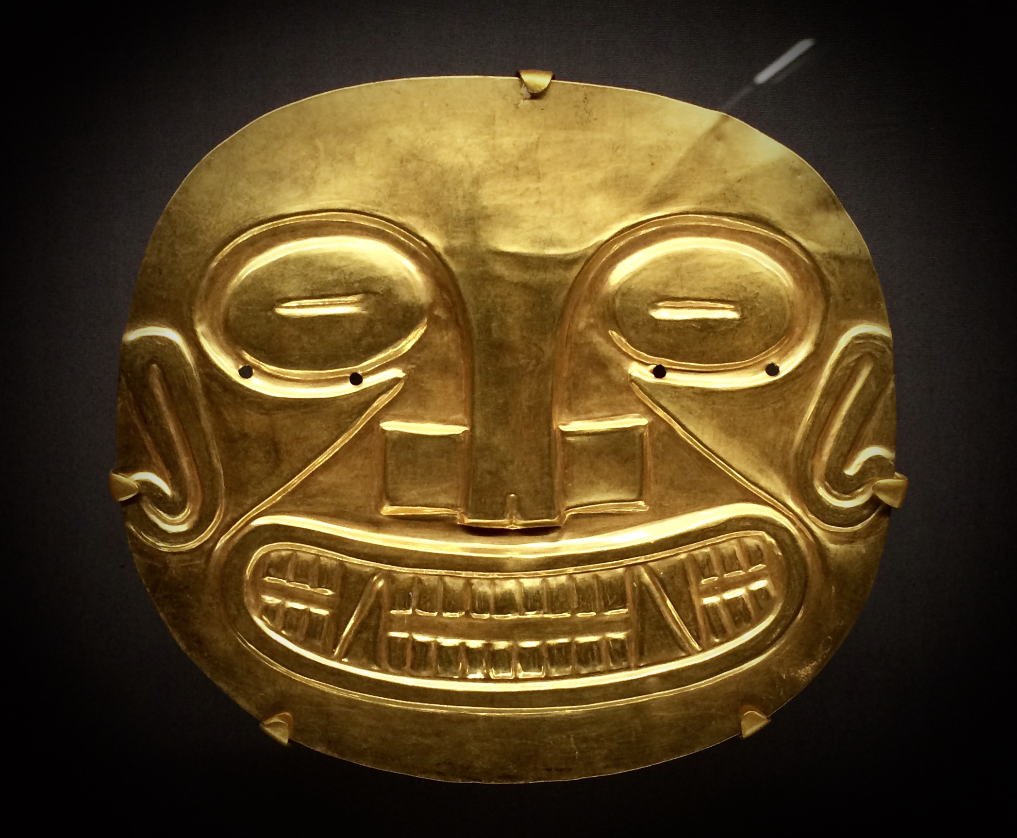 Sitio Conte, about 700 AD. From the Peabody Museum, Harvard. Excavated in 1930. The plaque was likely affixed to a garment at the shoulder. Golden Kingdoms exhibit, Getty Museum.